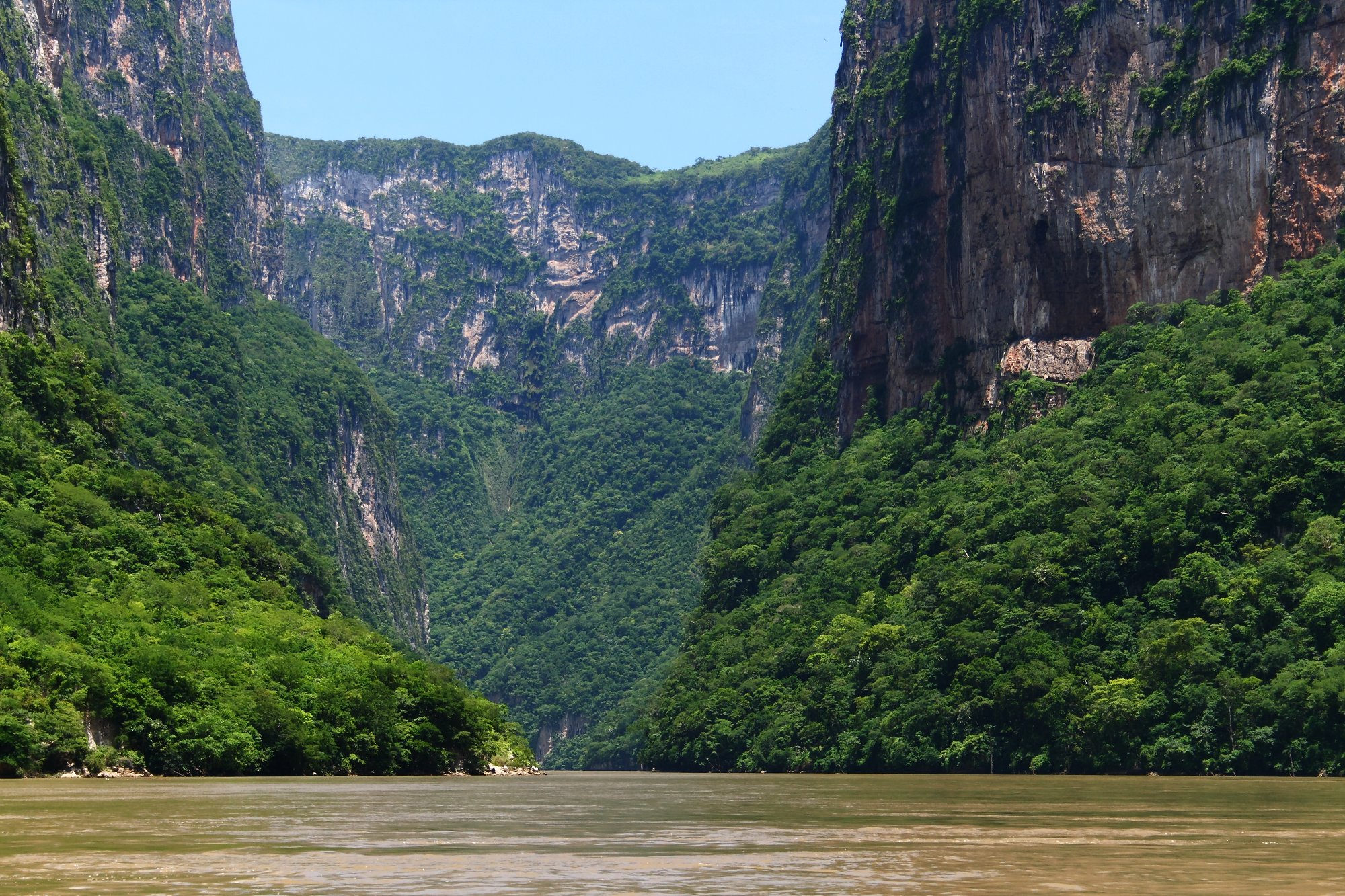 Grijalva River at entrance to Sumidero Canyon — in the state of Chiapas, Southwestern Mexico.